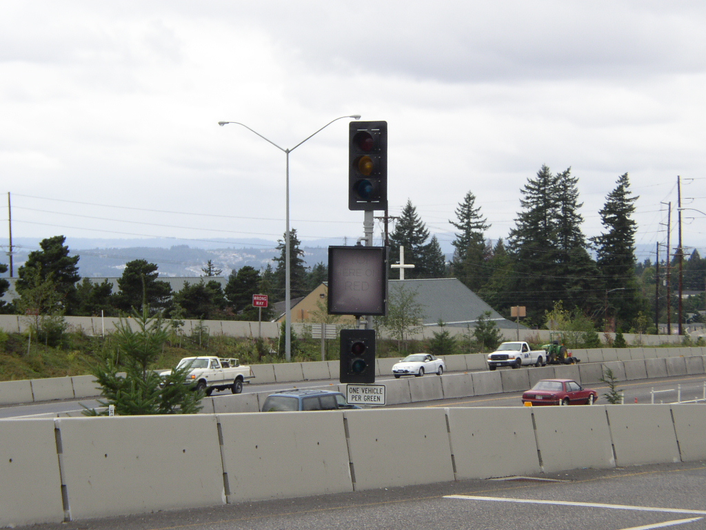 This is a ramp meter on the westbound Sylvan entrance to US-26 in Portland, Oregon. The signal is shown here during off hours. When it is active, the black box illuminates a 'STOP HERE ON RED' message with a diagonal down arrow pointing to the stop bar painted on the pavement. There is another meter opposite this one for a total of two lanes. They activate alternately of each other, allowing one car to proceed per lane at a time.